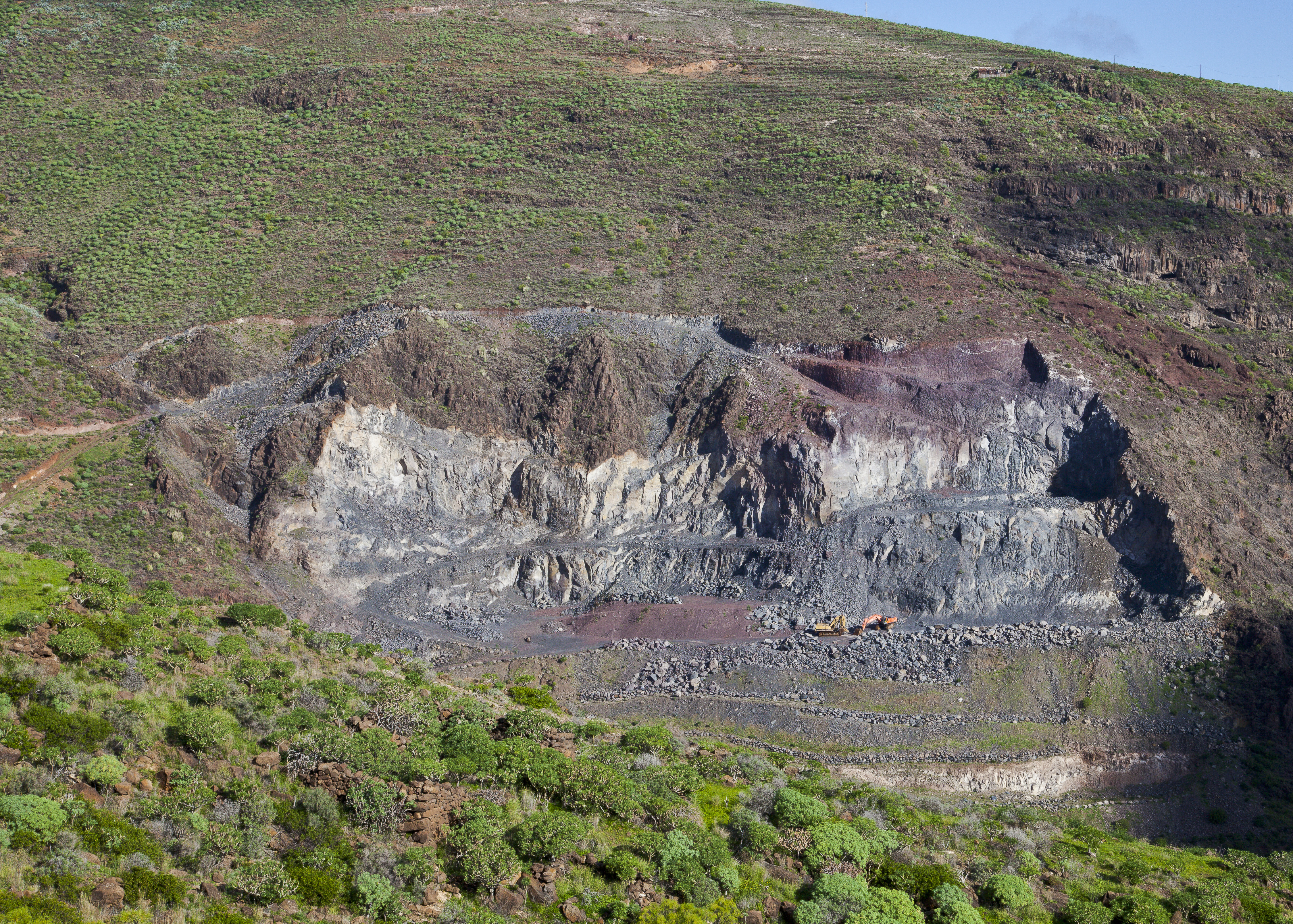 Quarry, La Gomera, Spain